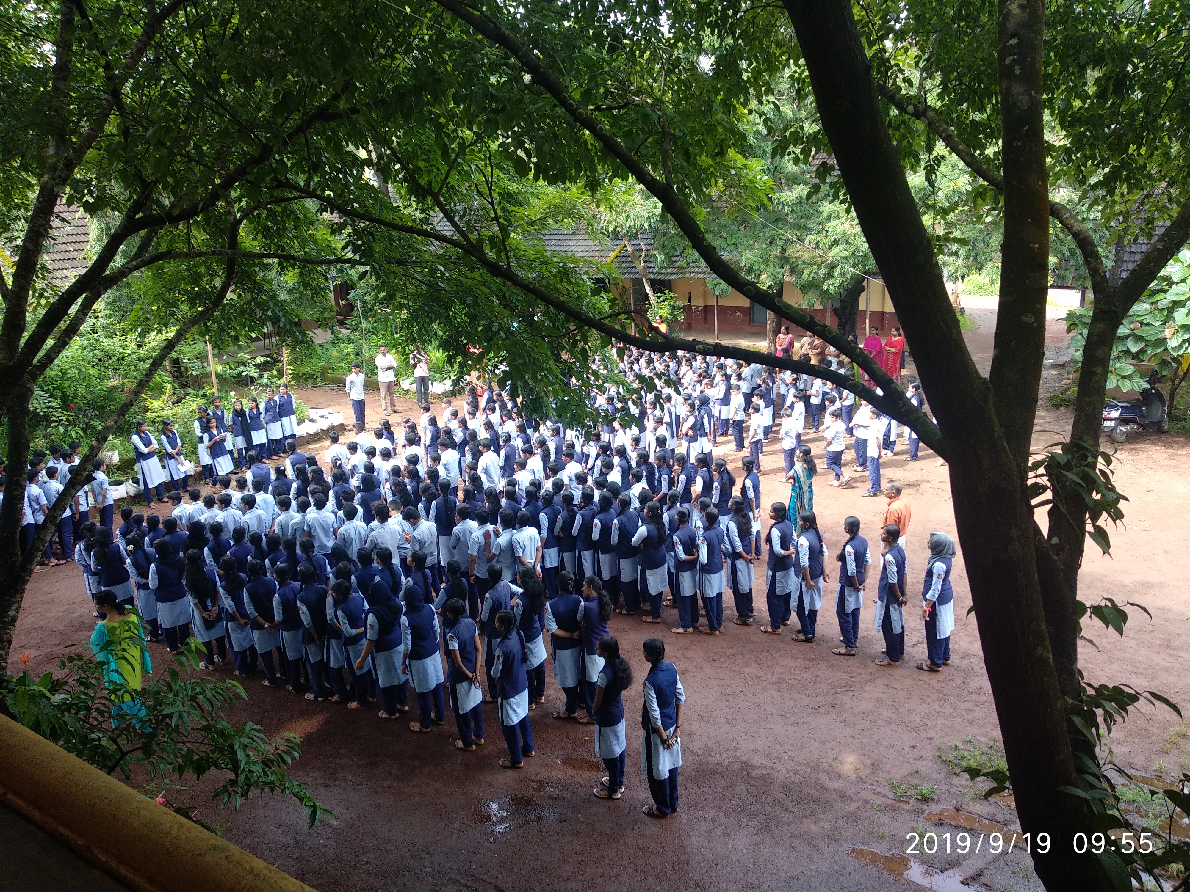 A school assembly is a gathering of all or part of a school for any variety of purposes, such as special programs or communicating information on a daily or weekly basis